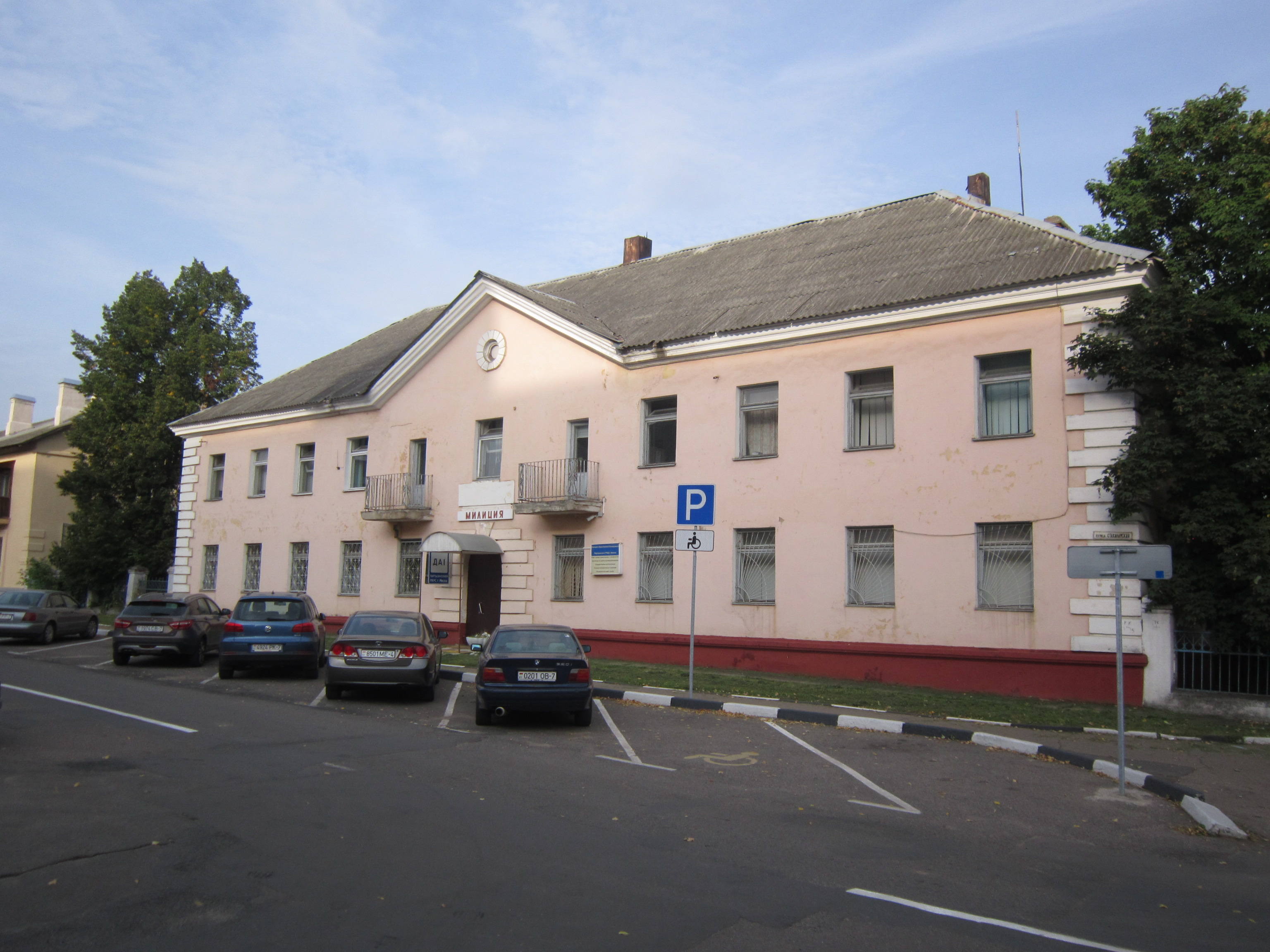 Stachanaŭskaja Street 7 (Minsk, Belarus). Road police (DAI) office of Partyzanski district